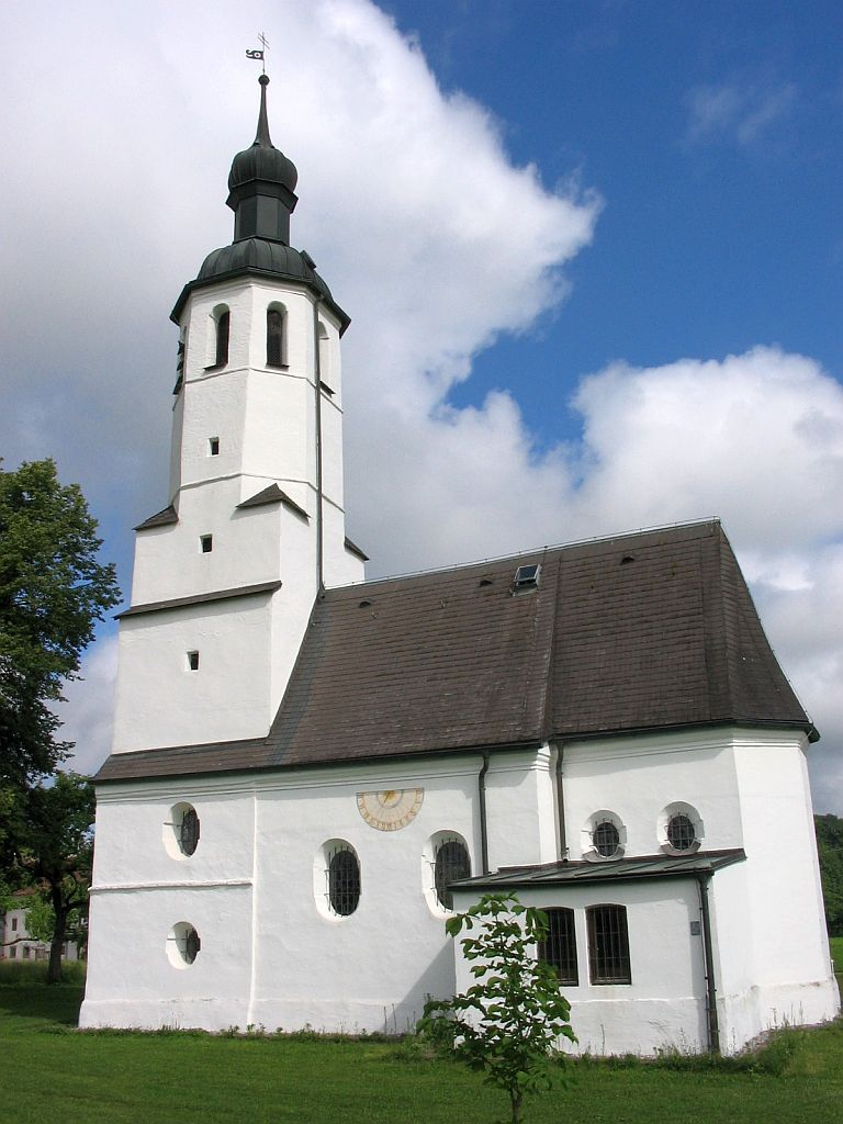 Church "Kirche zu den heiligen 14 Nothelfern" in Kleinholzen, Stephanskirchen